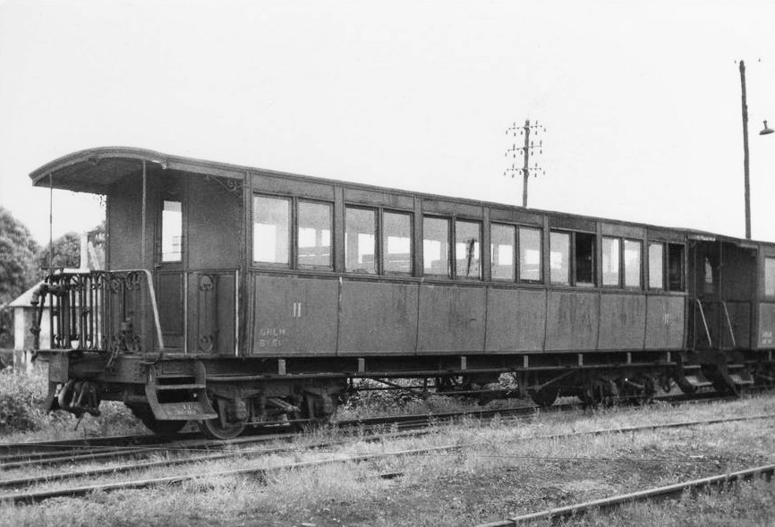 VFIL Oise - Voiture à bogies n° B 61 en gare de Noyon